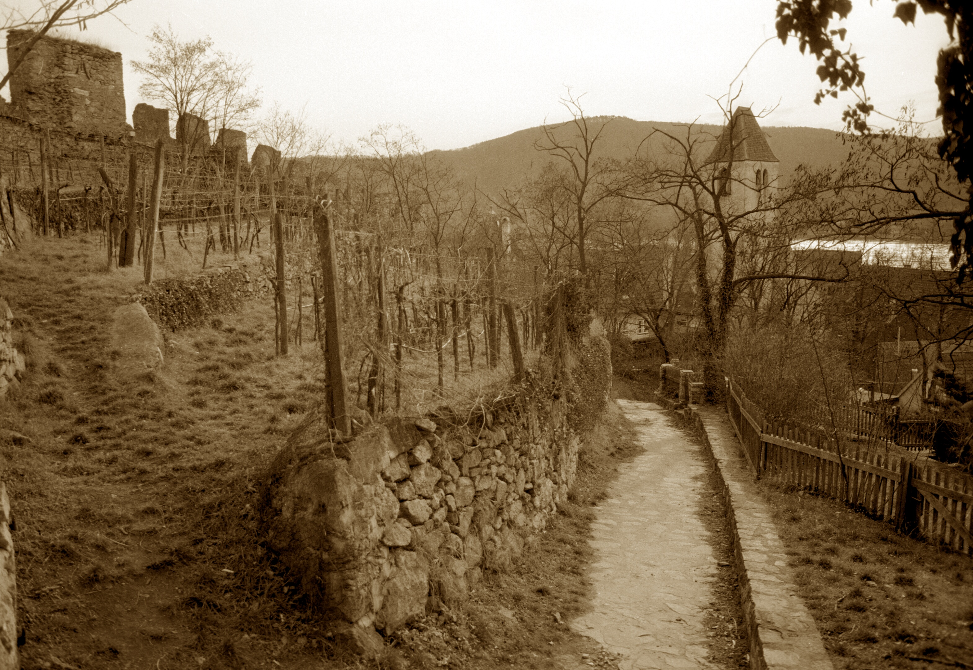 Castle ruins and vineyard in Durnstein, Austria. King Richard I of England was captured in 1192, near Vienna, by Leopold V of Austria (who accused Richard of arranging the murder of his cousin Conrad of Montferrat) and was held at the Castle in Durnstein. Other images by this contributor - User:Sba2